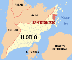 Map of Iloilo showing the location of San Dionisio